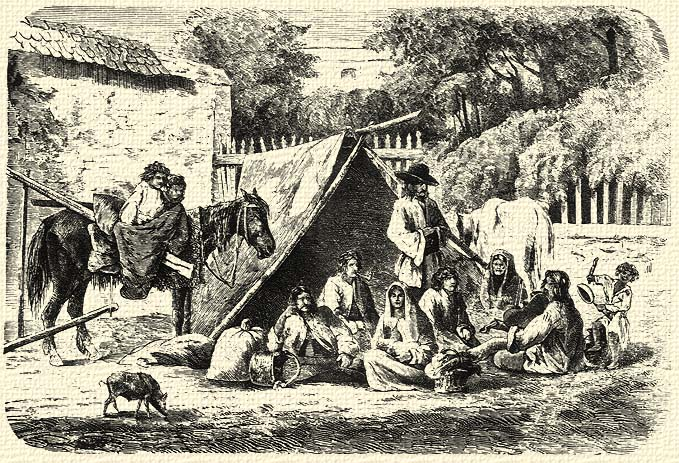 Tent of gypsies in Hungary